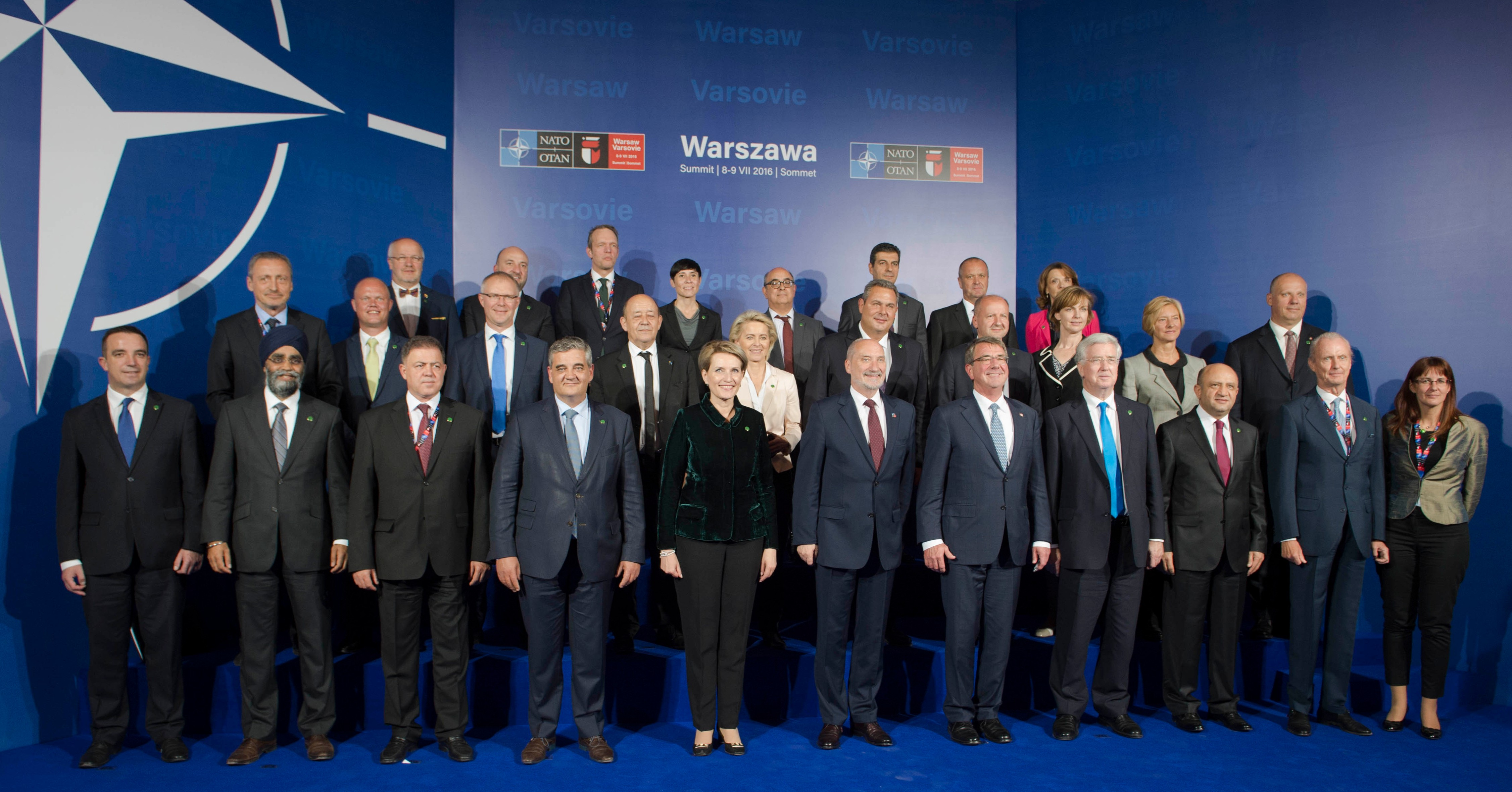 WARSAW, Poland (July 8, 2016) Secretary of Defense Ash Carter poses for a photo with NATO ministers of defense at the 2016 NATO summit in Warsaw, Poland July 8, 2016. (DoD photo by Navy Petty Officer 1st Class Tim D. Godbee)(Released)